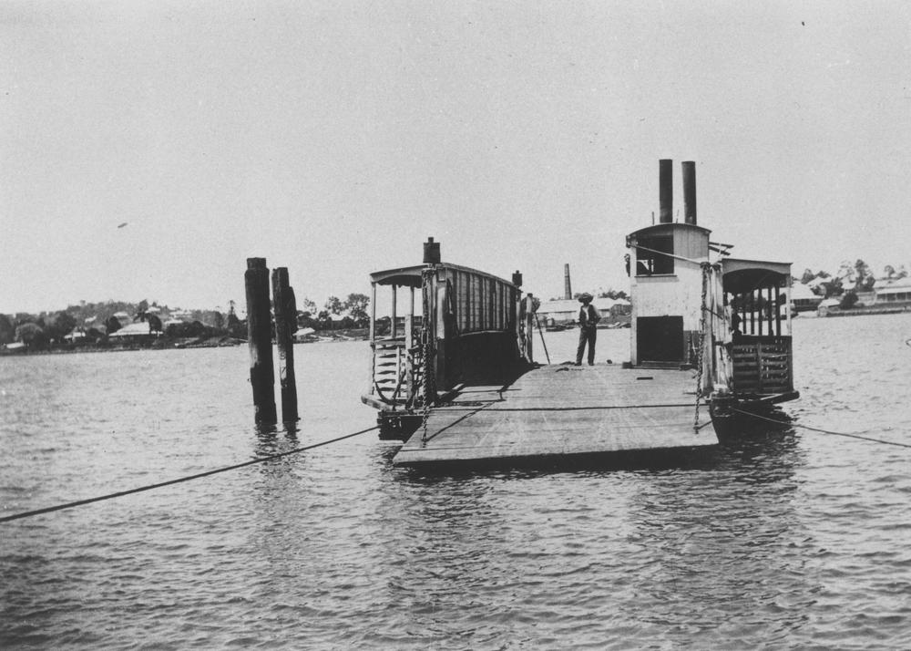 Bulimba Ferry on the Brisbane River, 1912. Suburb of Bulimba in the background.